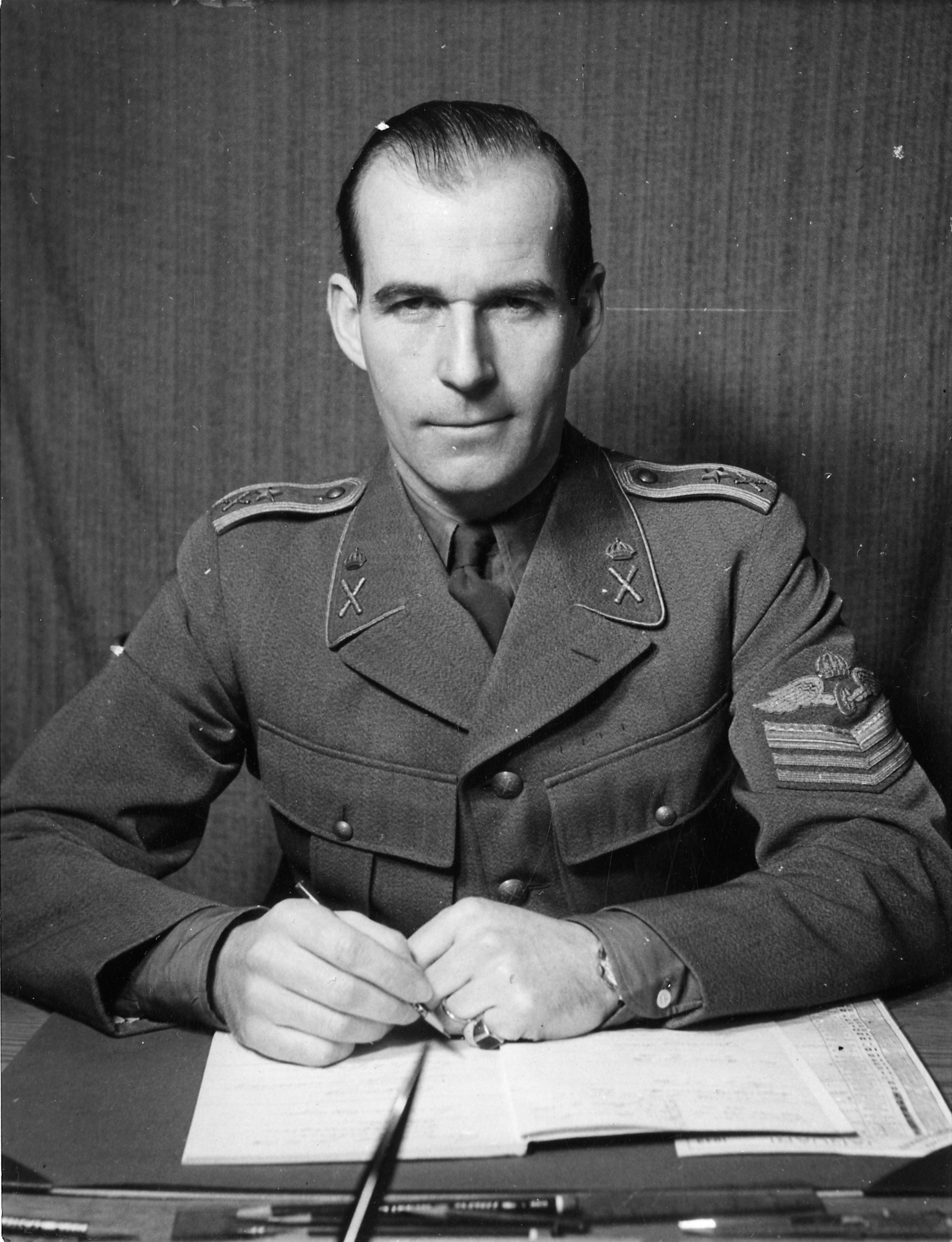 Major Carl C:son von Horn as Director of the Military Bureau of the Swedish Railway Board.